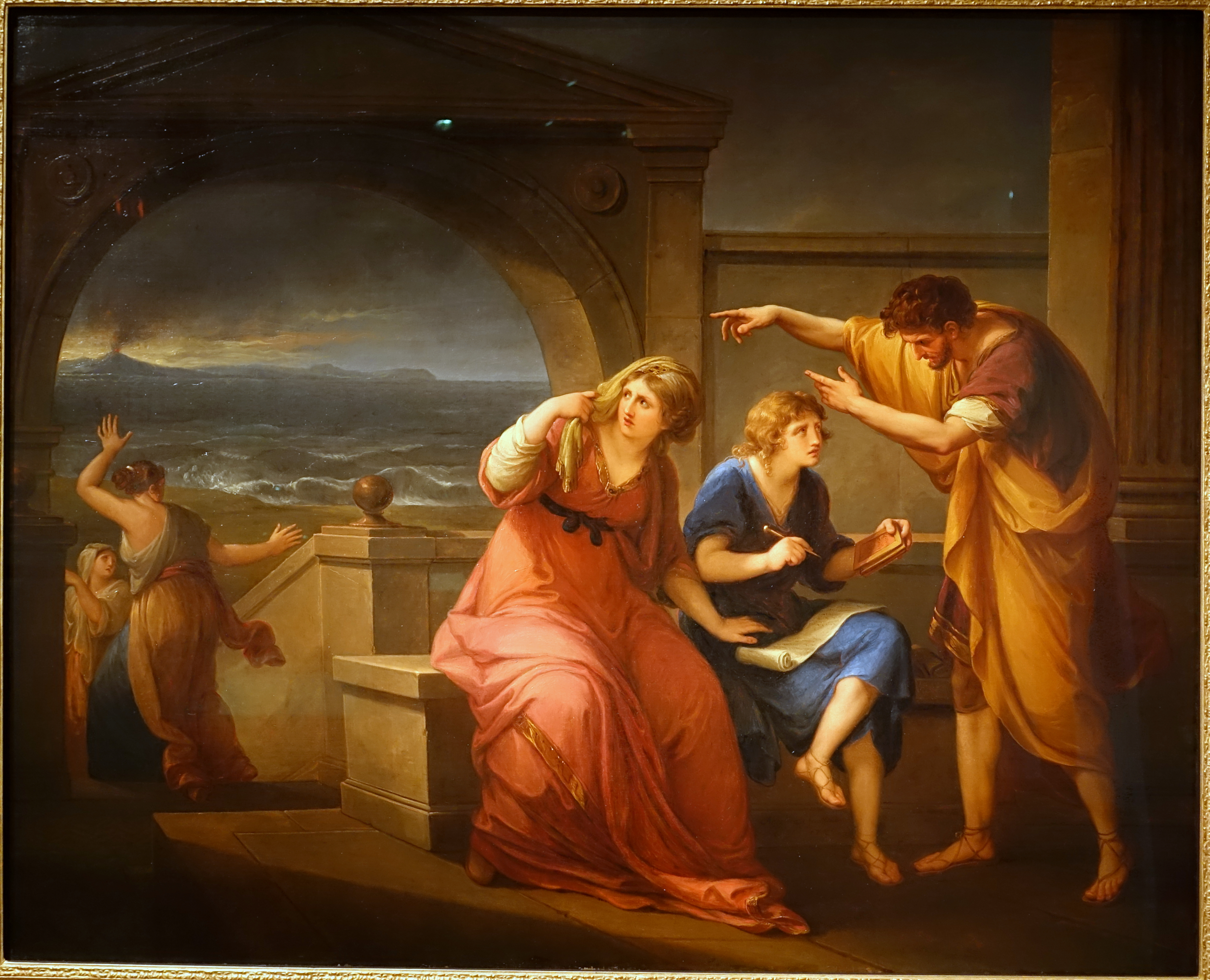 Exhibit in the Princeton University Art Museum - Princeton University, Princeton, New Jersey, USA.